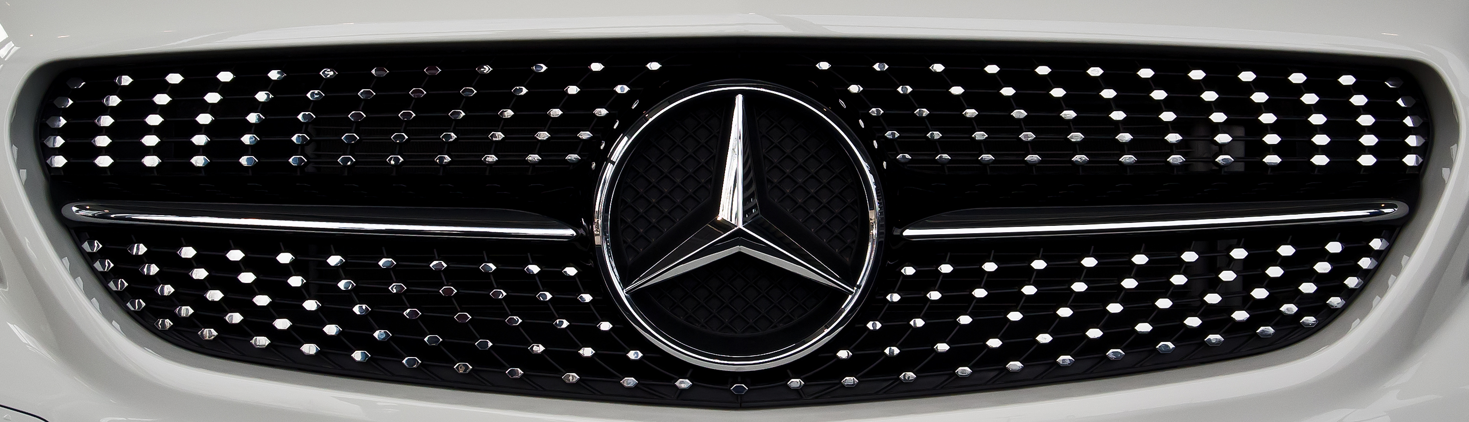 Mercedes-Benz CLA 200 Edition 1 (C 117)